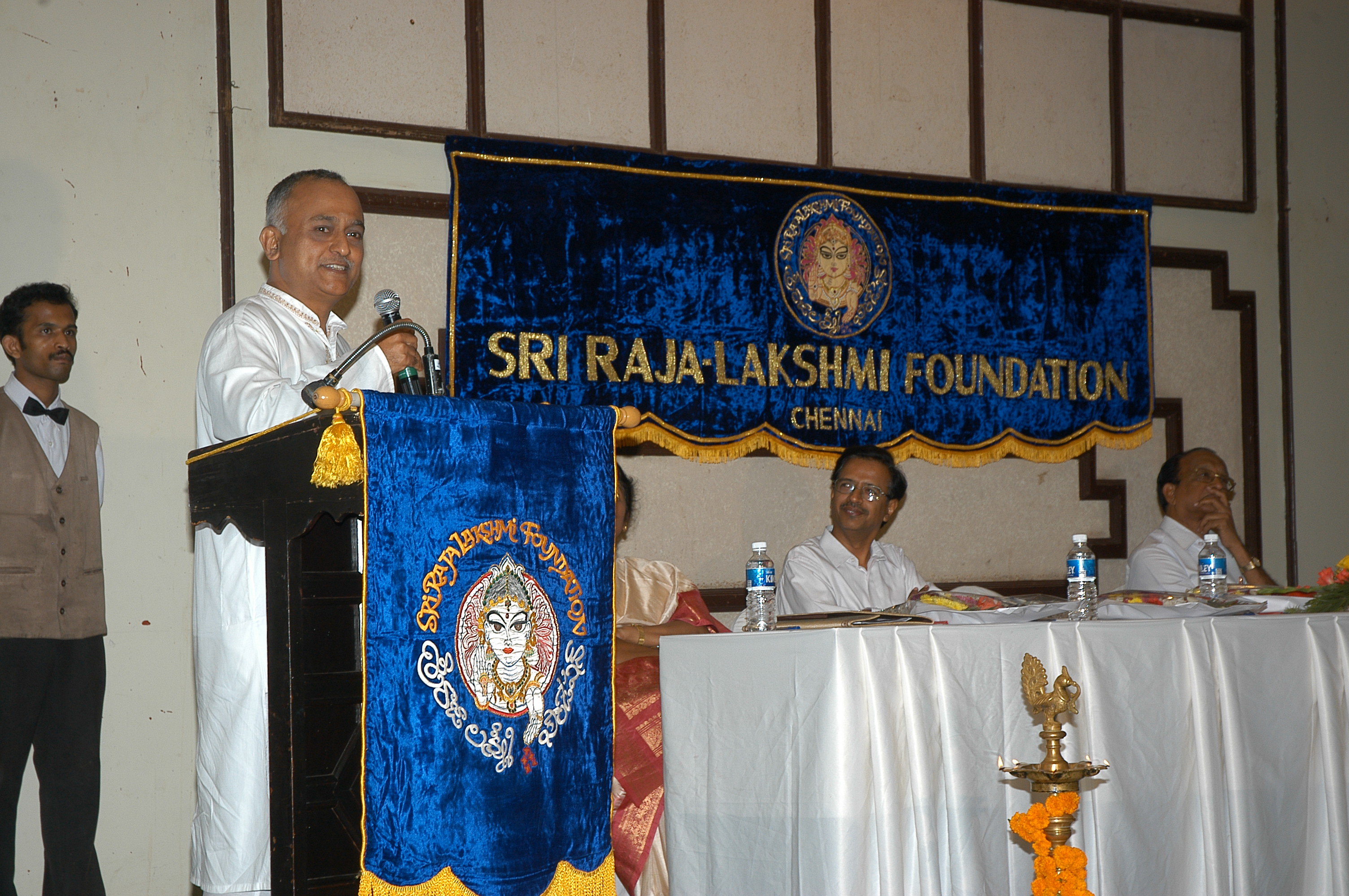 I,P.Yugesh Narayan, being Trustee of Sri Raja-Lakshmi Foundation, am owner of the photograph.